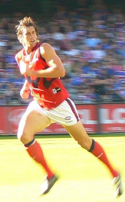 Jeff White, AFL player